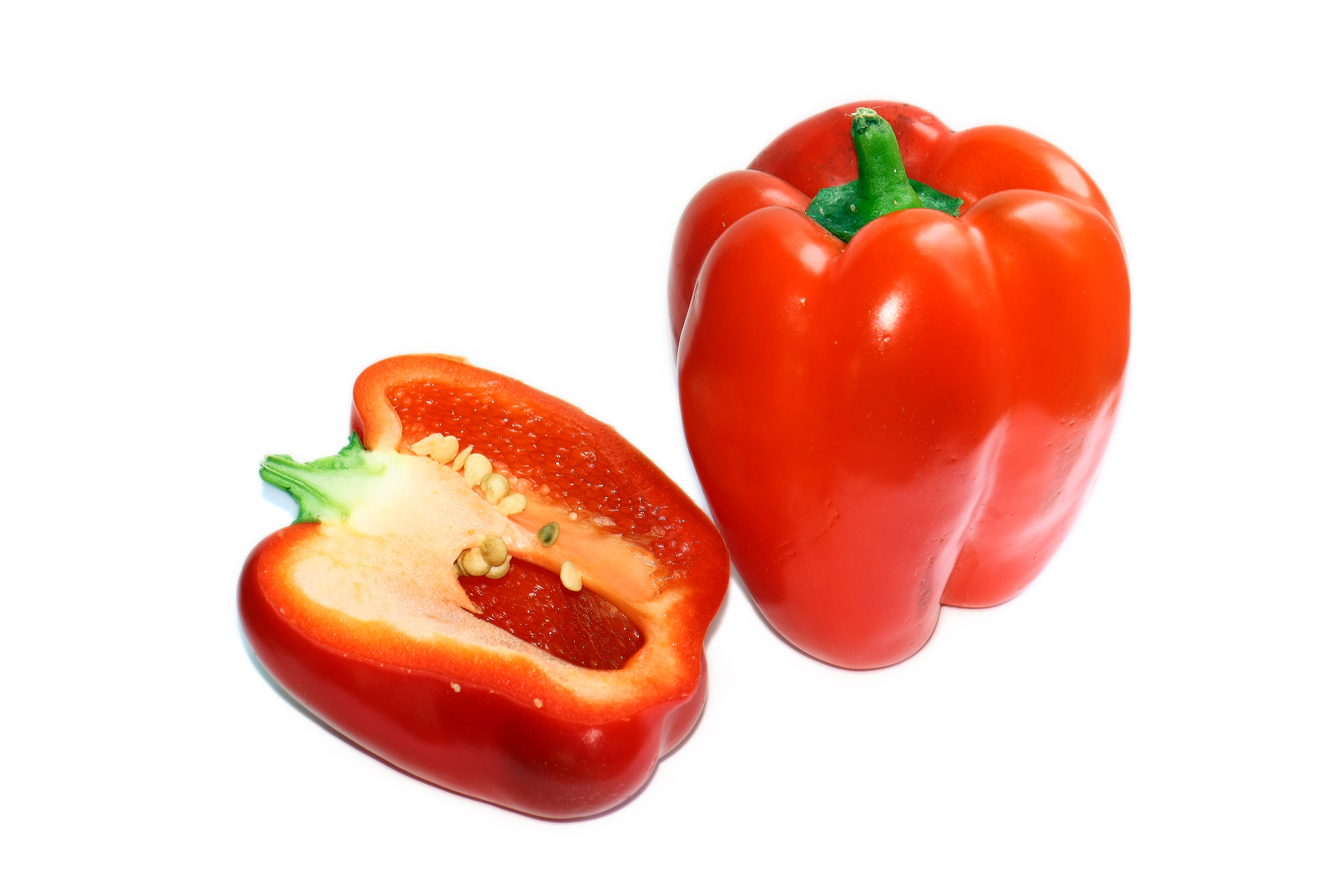 Red bell pepper (full and halved), Sri Lanka